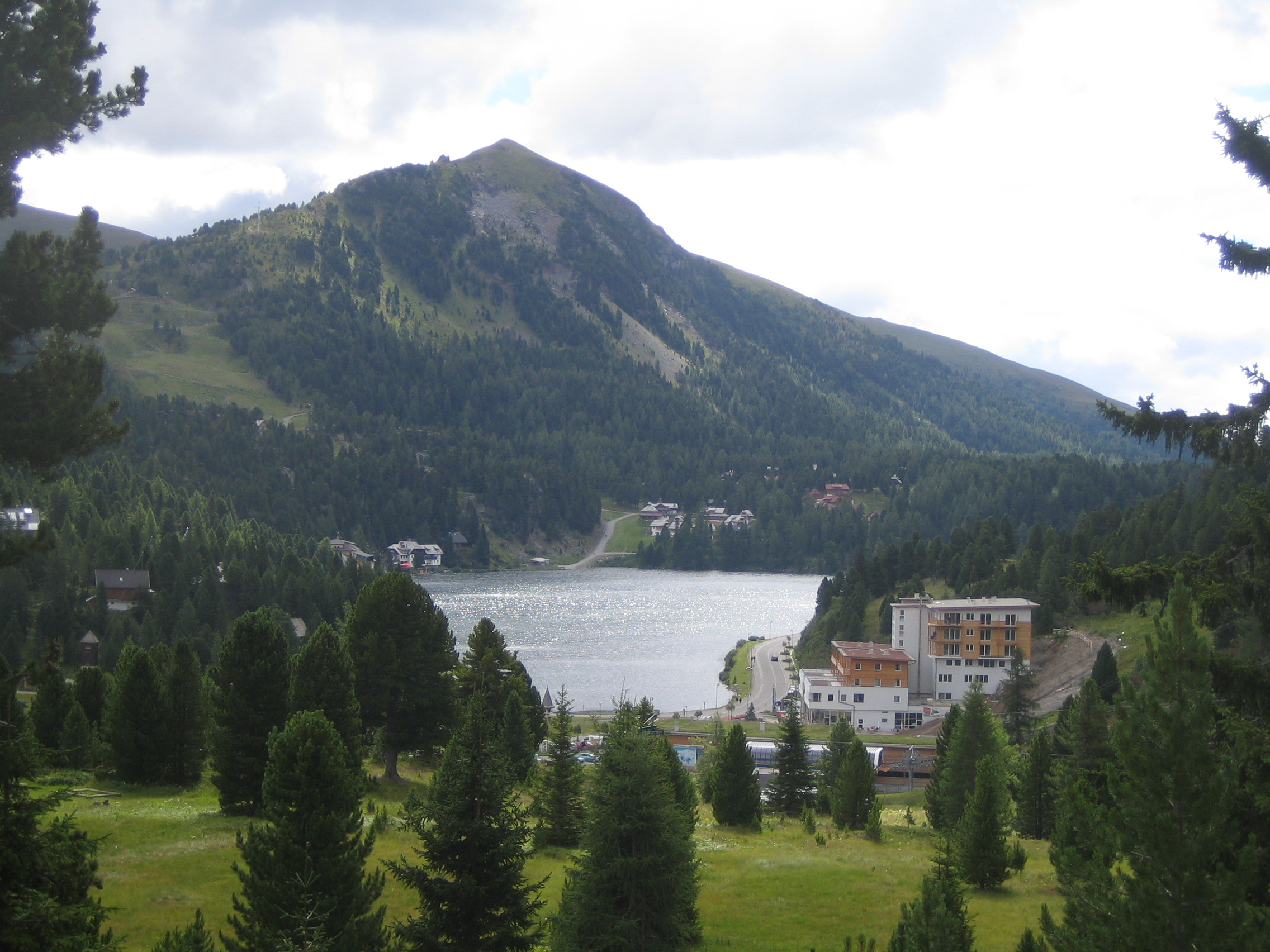 Turracher Höhe, part of Predlitz-Turrach, Styria, Austria. In the background the Schoberriegel, 2208m, about 2 km in the south-east direction (Carinthia).